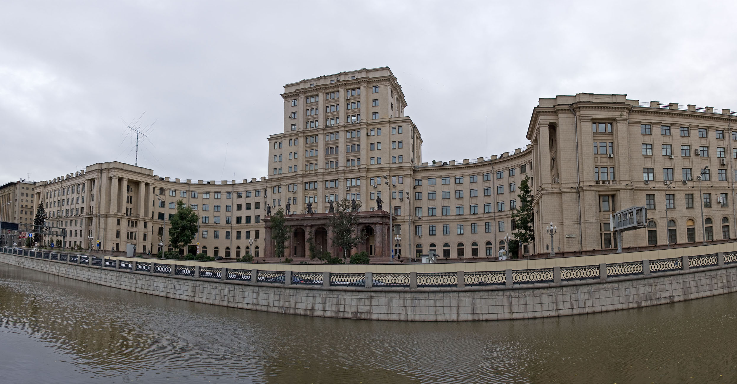 Bauman Moscow State Technical University / Moscow, Russia